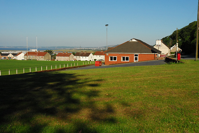 Baglan R.F.C. Field and Clubhouse. View of the Baglan R.F.C. clubhouse with Swansea Bay in the distance.